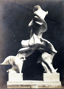 Photo of original plaster of Unique Forms of Continuity in Space by Umberto Boccioni. Photo taken for Estado de São Paulo newspaper.